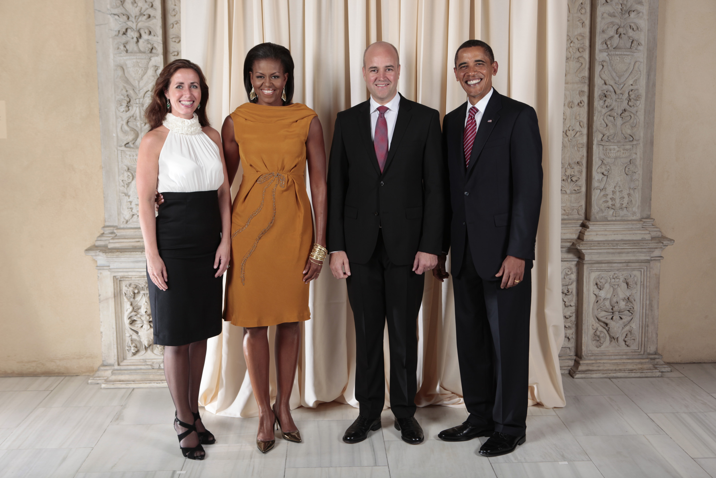 President Barack Obama and First Lady Michelle Obama pose for a photo during a reception at the Metropolitan Museum in New York with H.E. Fredrik Reinfeldt, Prime Minister of Sweden, and his wife, Mrs. Filippa Reinfeldt.